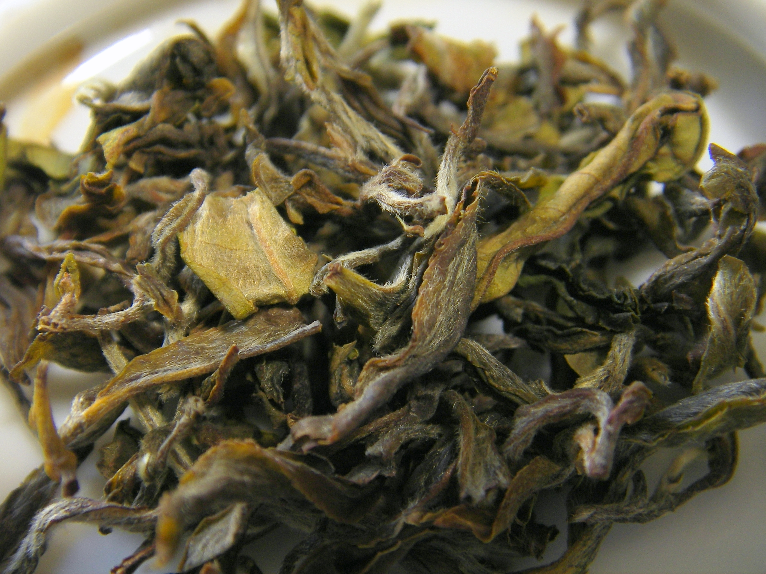 Darjeeling white tea: Margaret's Hope White Tea DJ-86